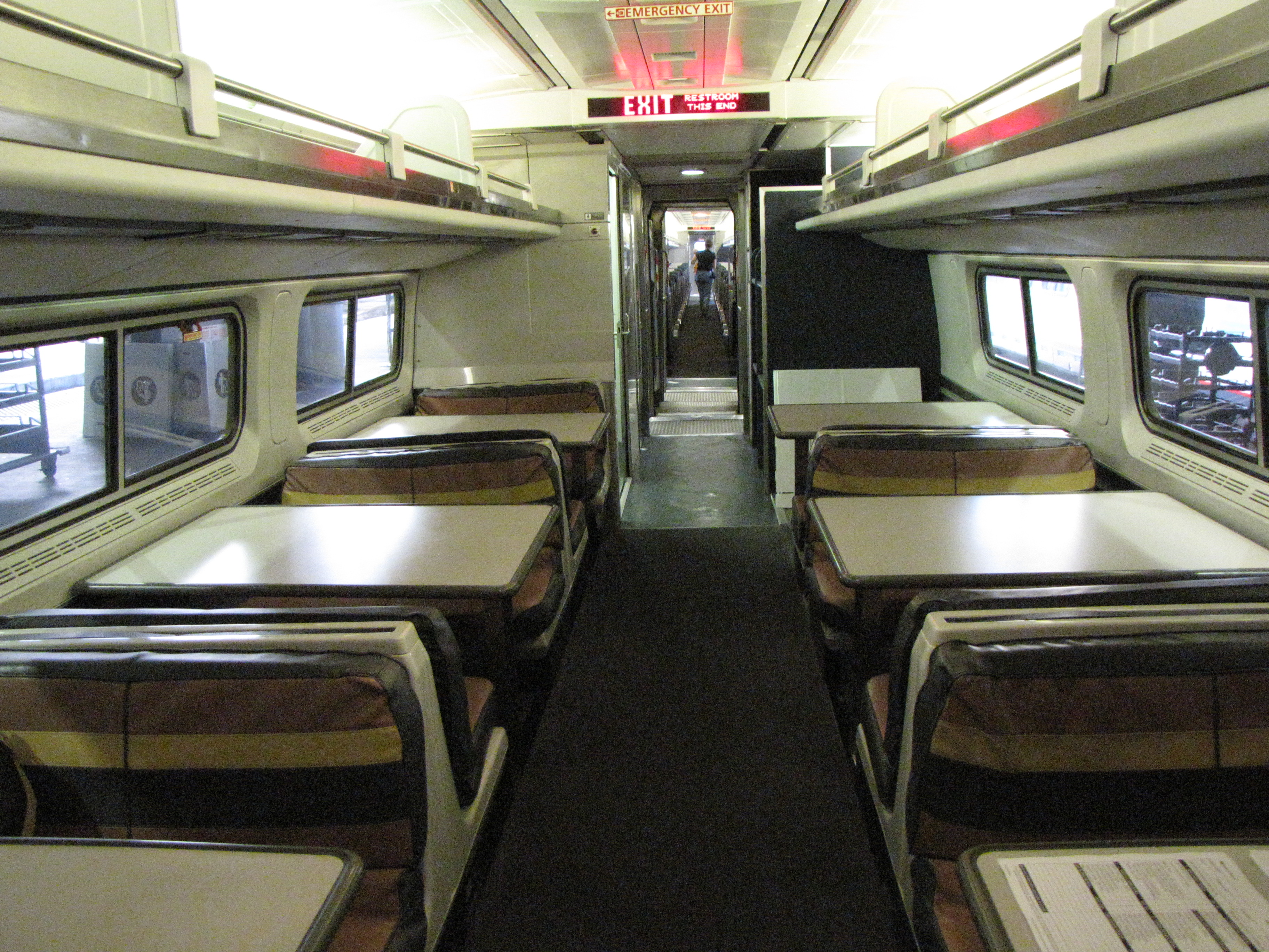 Lounge seating on Amfleet cars.